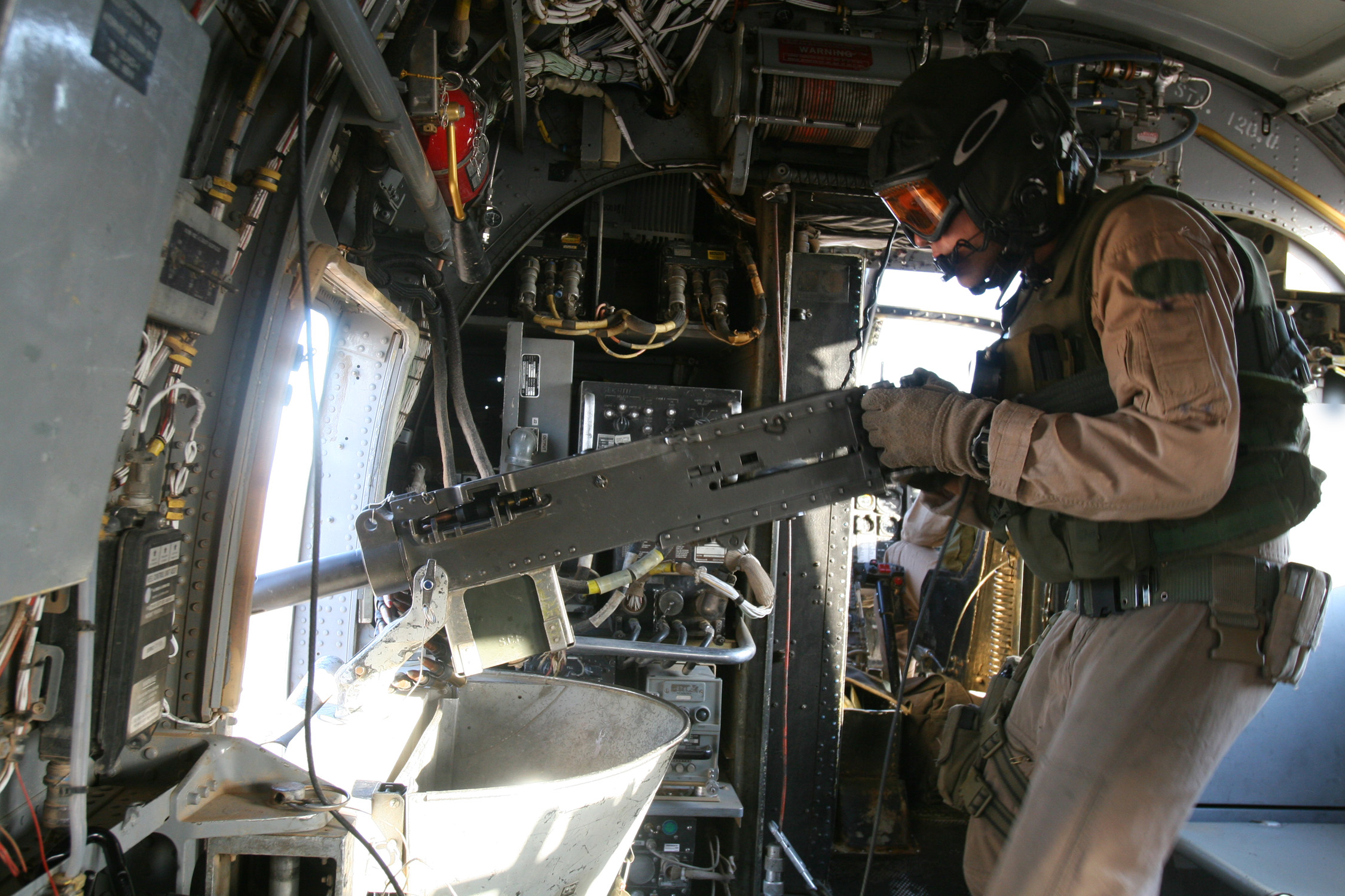 Cpl. Miles P. Wilson fires a .50-caliber machine gun from a CH-46 Sea Knight helicopter during a test flight at Al Taqaddum, Iraq, Aug. 31. The Purple Foxes of HMM-364, Marine Aircraft Group 16 (Reinforced), 3rd Marine Aircraft Wing (Forward), assumed authority from the Red Dragons of HMM-268 Aug. 29, for providing casualty evacuation, general transportation and raid flights. Wilson is a crew chief and Lafayette, Ind., native. Photo ID: 200691492527